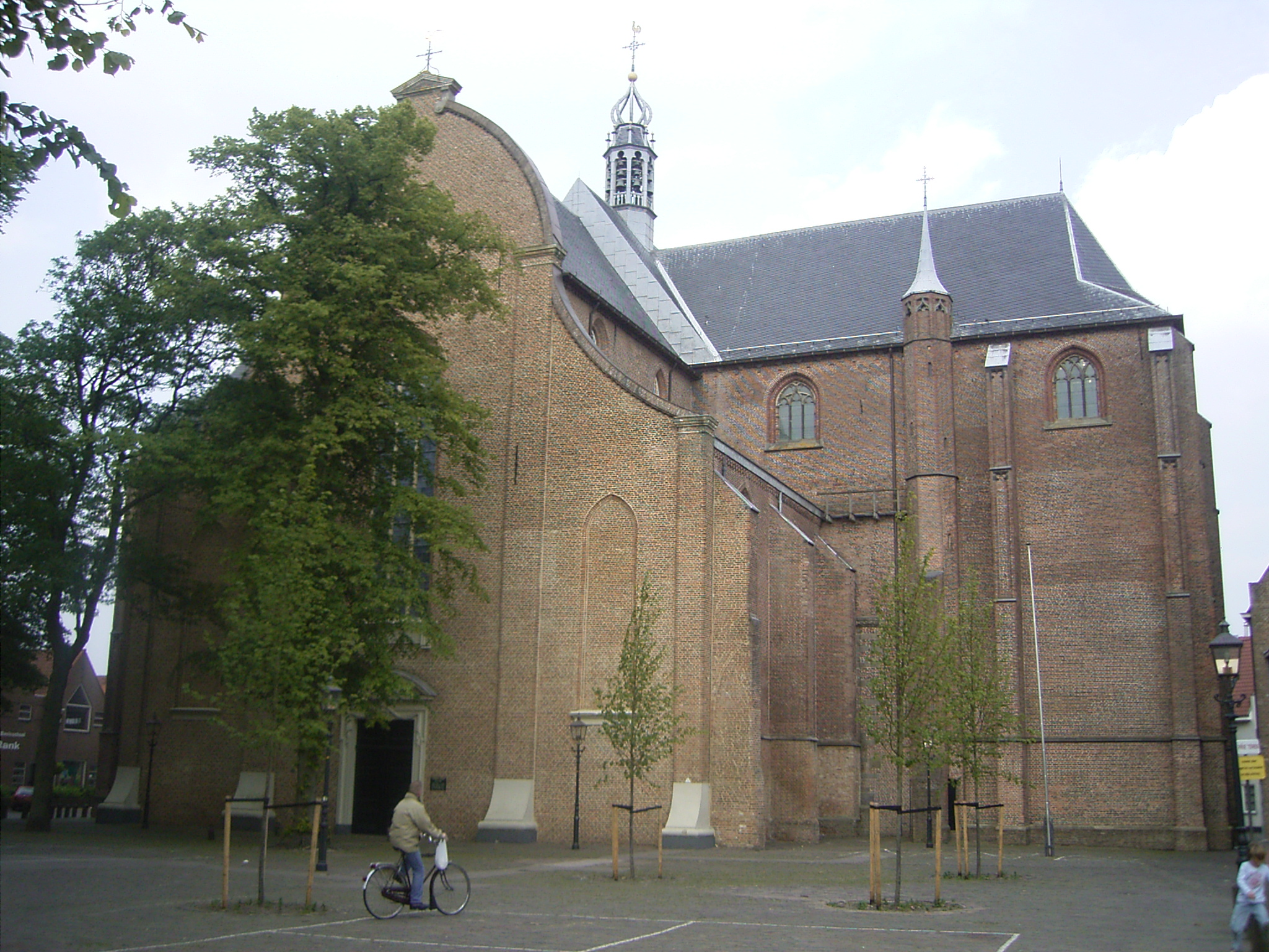 This photo shows the Big Church in Harderwijk